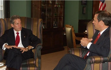 On September 28, 2005, Senator Norm Coleman met with Judge John Roberts to discuss his nomination for Chief Justice of the Supreme Court .